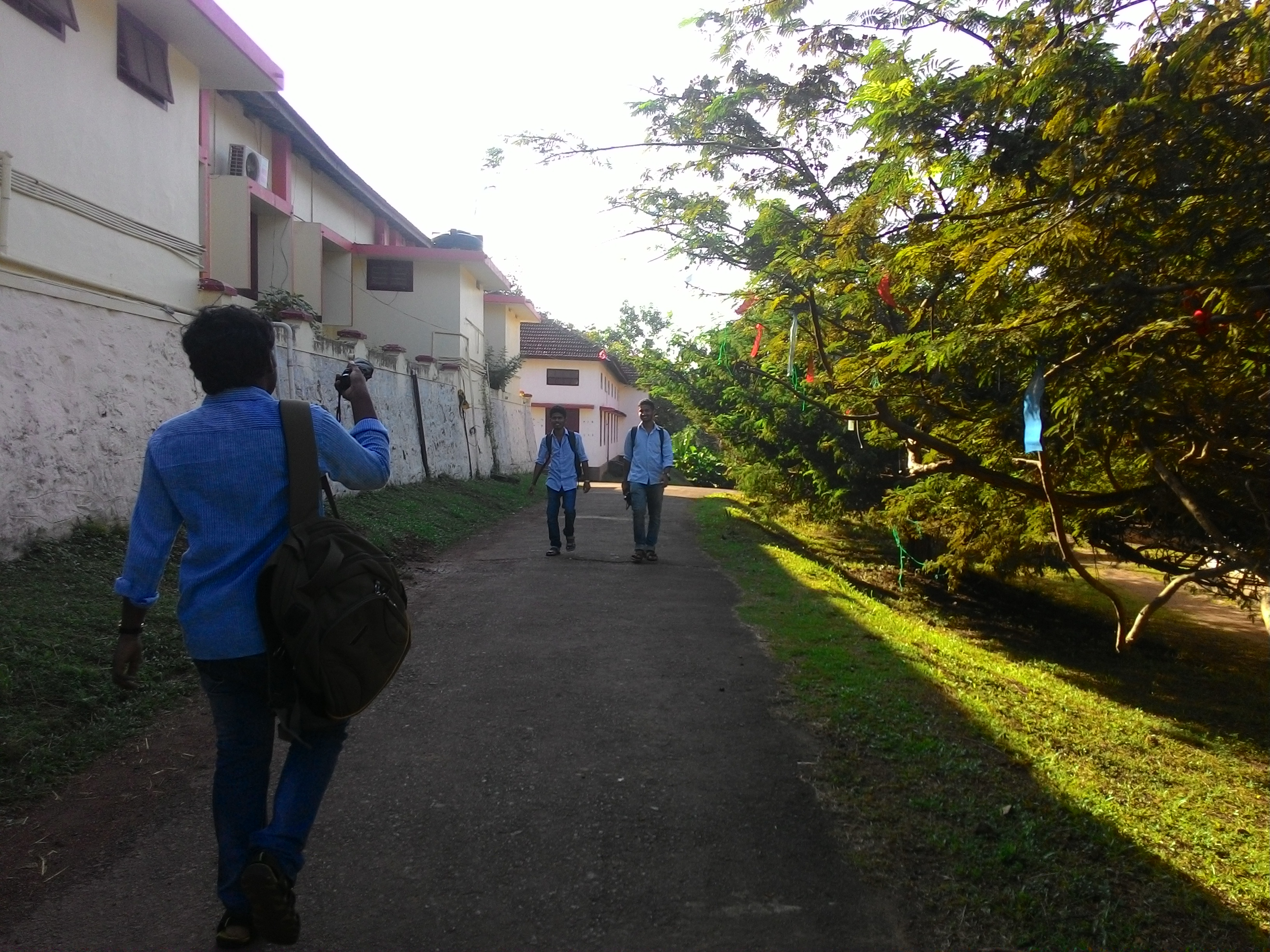 A road inside UC college, Aluva